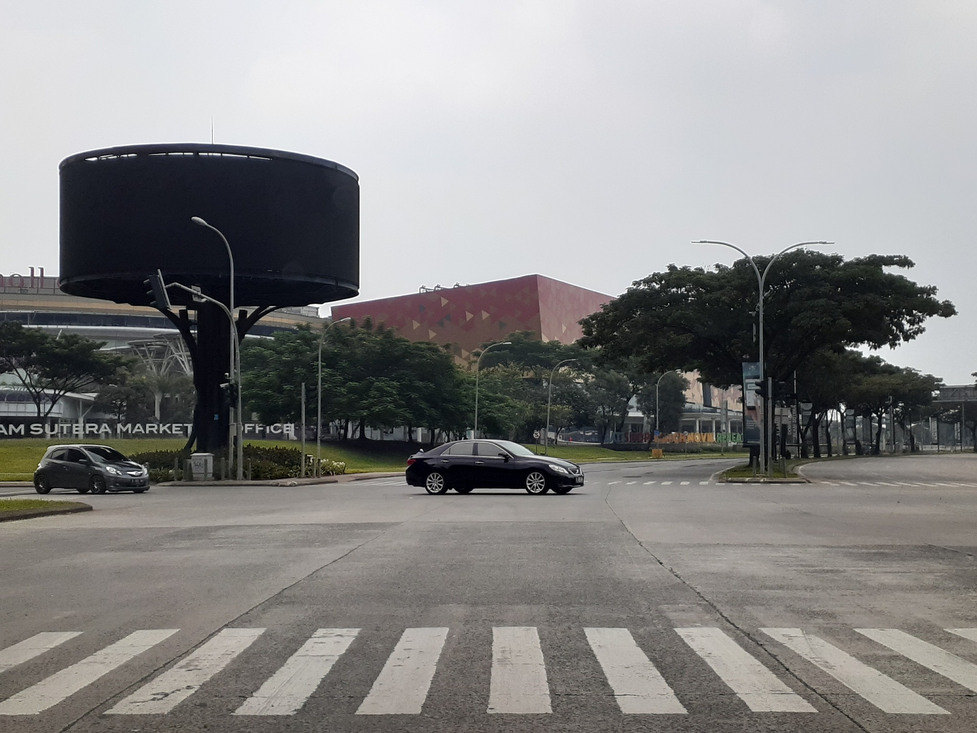 The intersection on Jalur Sutera Boulevard in front of the Alam Sutera Mall. The car in the middle is Toyota Mark X 250G (GRX130).